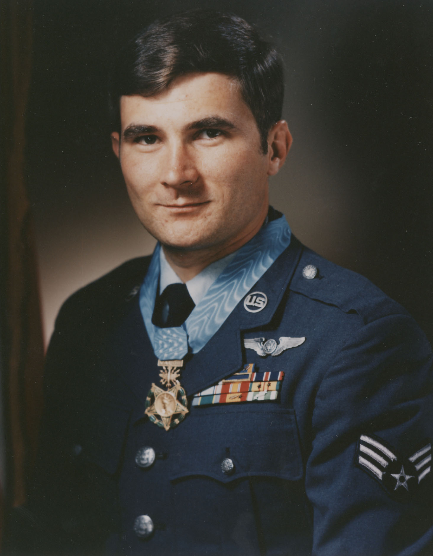 John Levitow from [1]